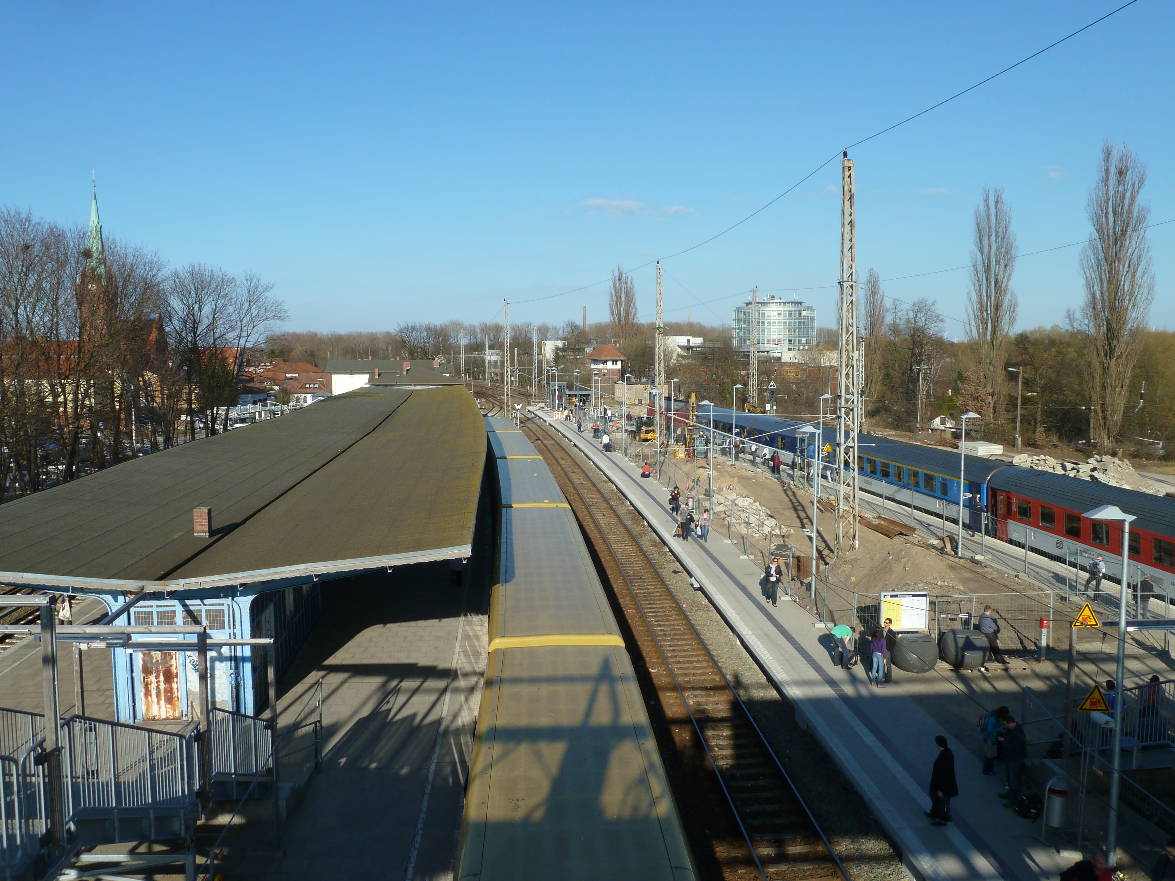 View on Bernau train station.